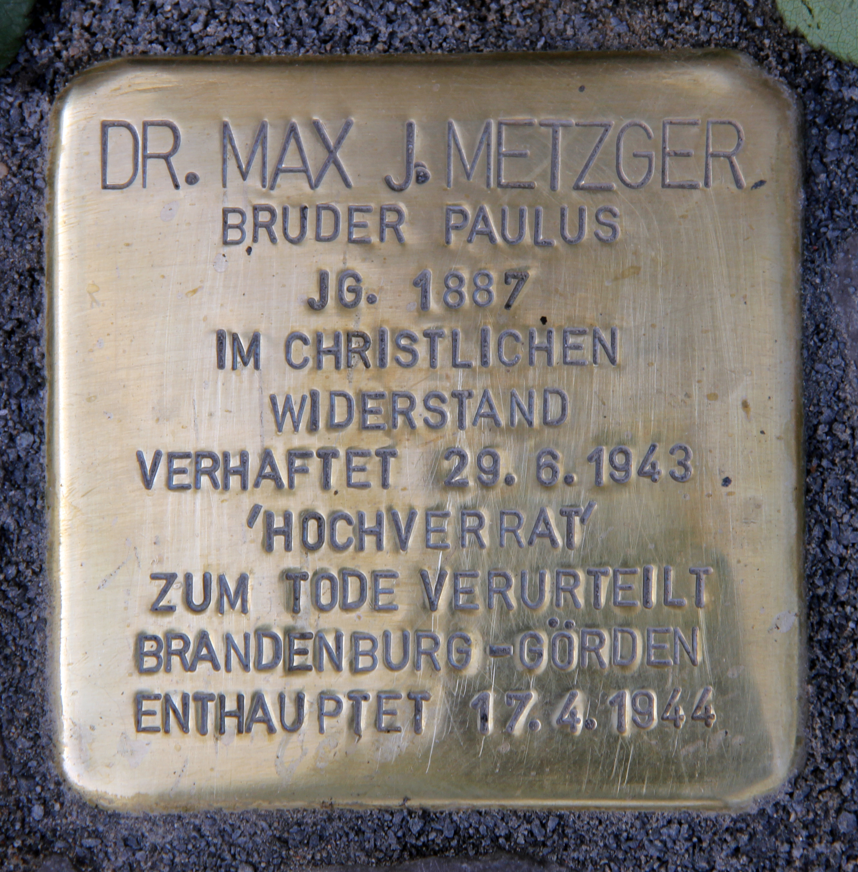 "Stolperstein" (stumbling block), Max Josef Metzger, Müllerstraße 161, Berlin-Wedding, Germany